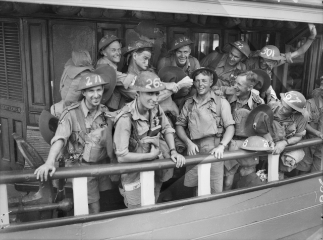 AWM Caption: "SYDNEY, NSW. 5 FEBRUARY 1941. MEMBERS OF THE 2/18TH BATTALION HAM IT UP FOR THE CAMERA, ON BOARD A FERRY BOUND FOR THEIR ASSIGNED SHIP WHICH WILL TRANSPORT THEM TO MALAYA."